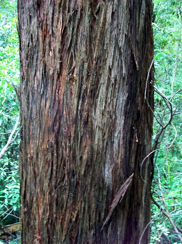 Eucalyptus laevopinea, at West Pennant Hills, NSW, Australia